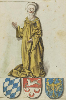 Matilda Countess of Lotharingia